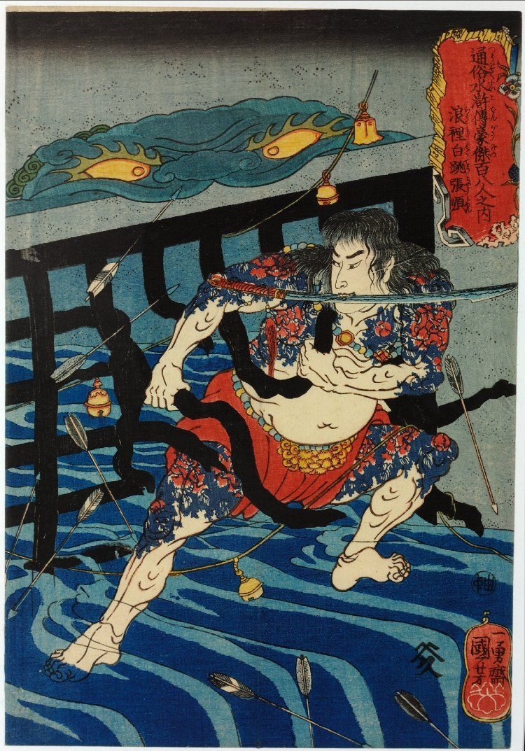 Zhang Shun (張順), half-naked and tattooed, holding a sword between his teeth, wrenching apart the bars of a water-gate with his hands.